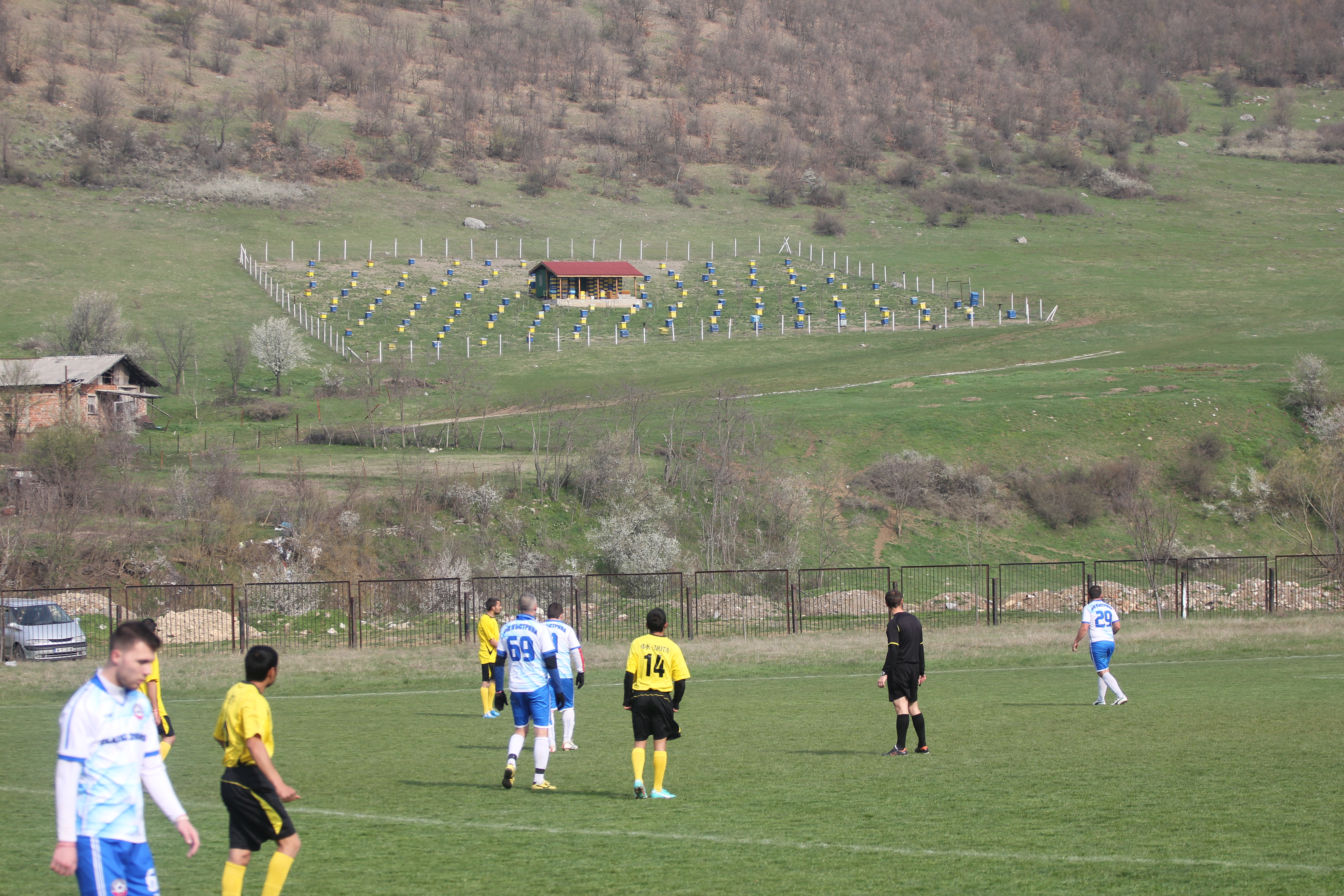 Playground in Nikolovo, Montana Province, Bulgaria.